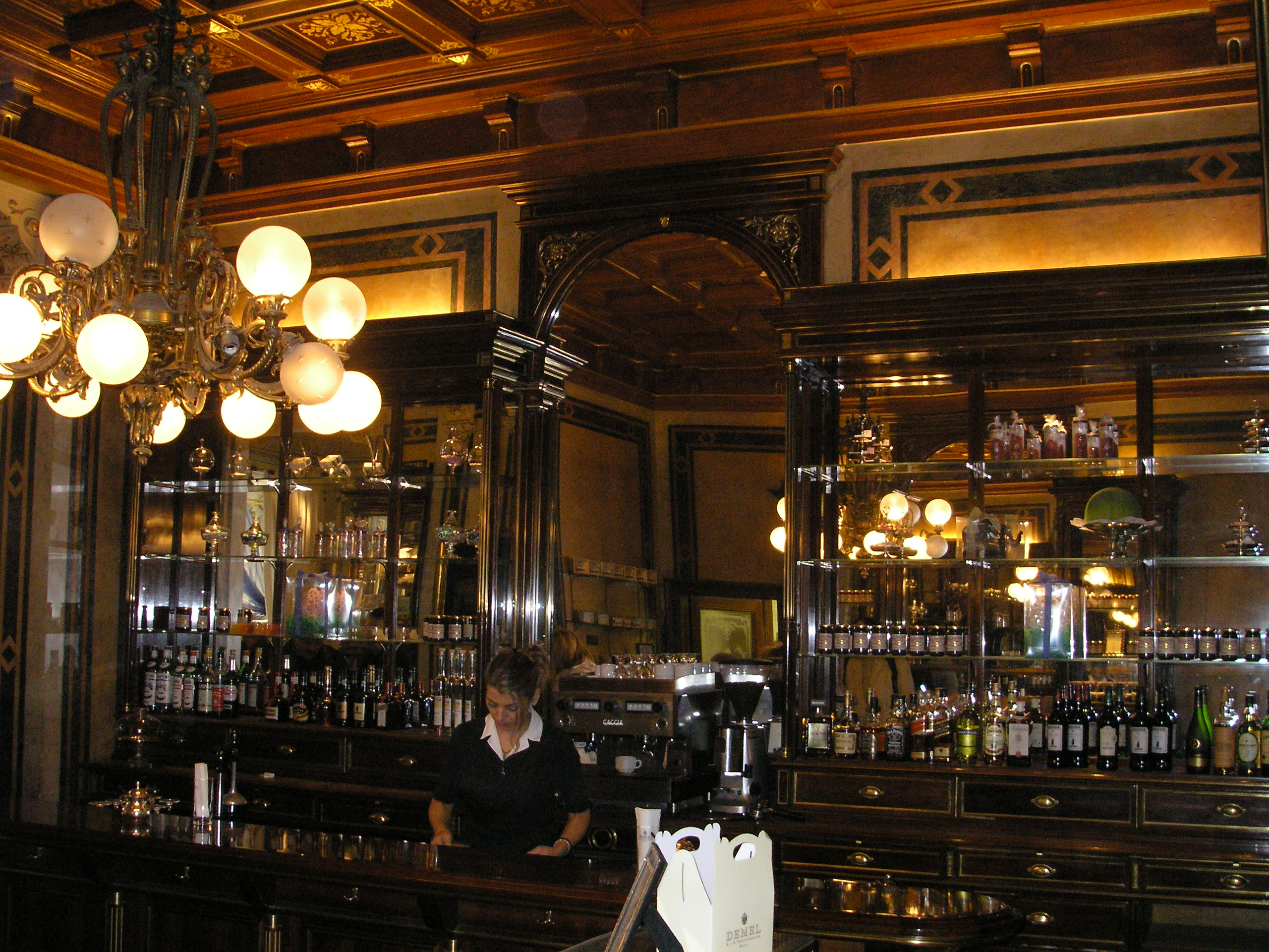 Description: Interior view of the Café Demel in Vienna. Source: self-made, I release it into the public domain. Gryffindor 22:24, 23 March 2006 (UTC)